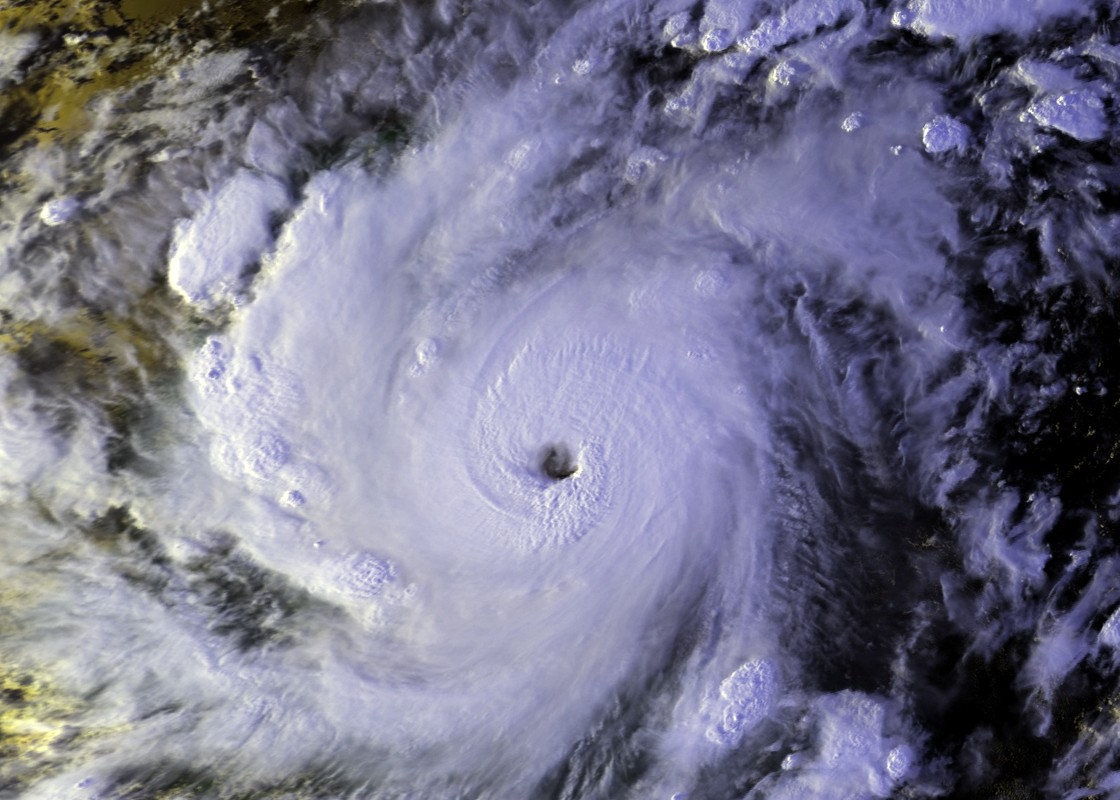 Hurricane Keith strengthening on September 30 at 2227 UTC. This image was produced from data from NOAA-12, provided by NOAA. The storm's maximum sustained winds were increasing from 85 mph.